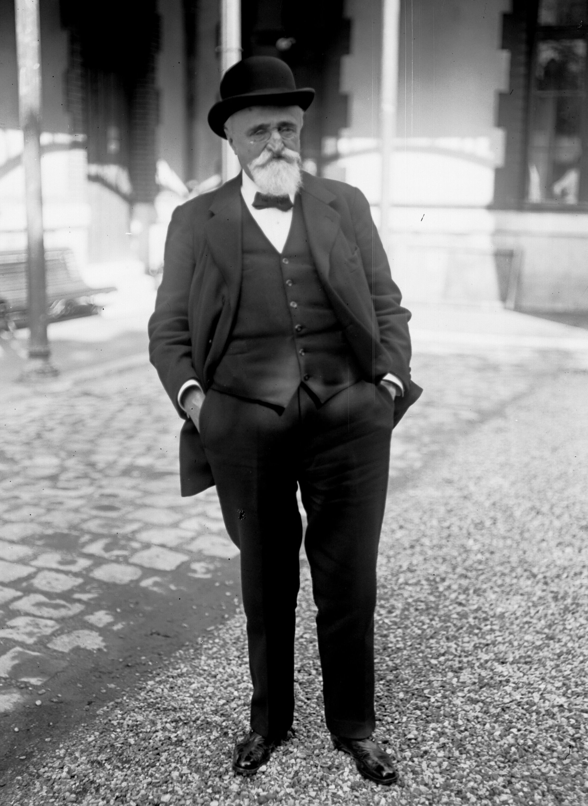 French newspaper publisher Ernest Vaughan (1841-1929) in 1916. Original title : "M. Vaughan, directeur des Quinze-Vingts".